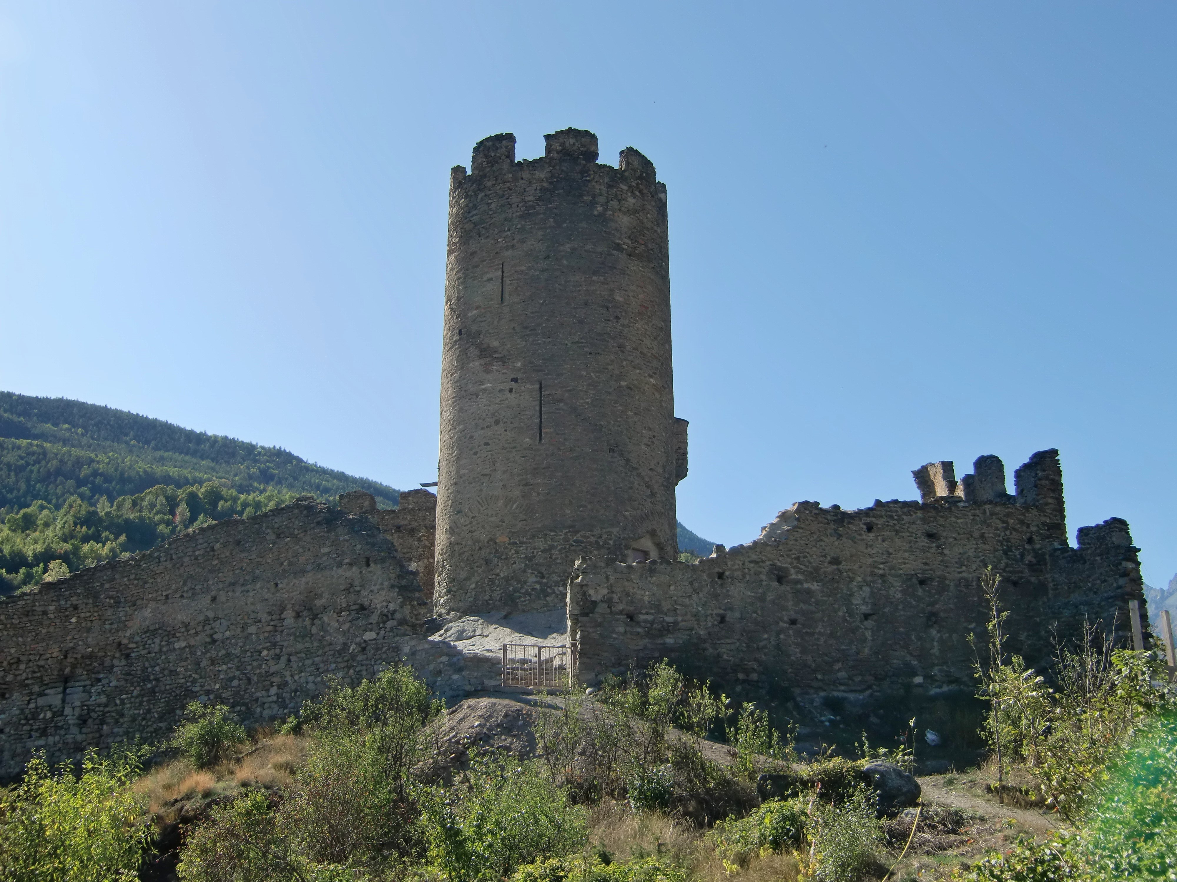 Chatel-Argent Castle, Villeneuve, Aosta Valley